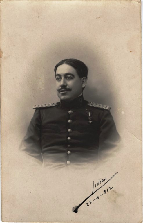 Coronel de Infantería Julián Martínez-Simancas Ximénez